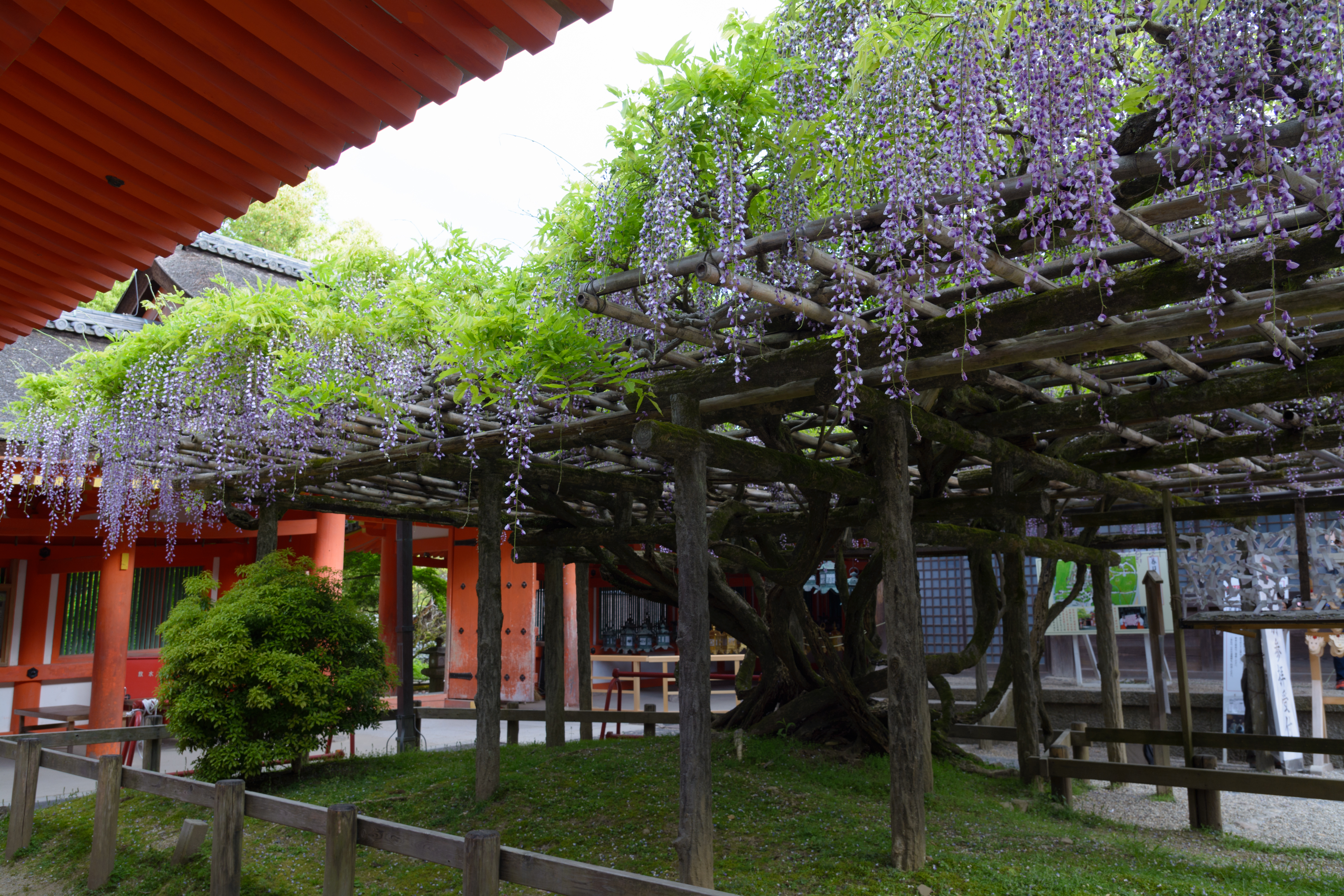 "Sunazuri-no-Fuji" (wisteria flowers drooping down to reach the sand on the ground) in Kasuga-taisha, Nara, Japan.